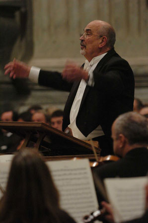 Paul Salamunovich conducting the St. Petersburg Philharmonic, Rome, Italy 2003